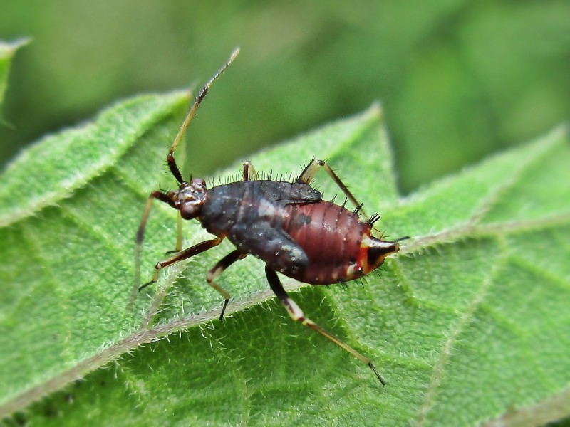 Deraeocoris ruber (Miridae sp.) nymph, Elst (Gld), the Netherlands